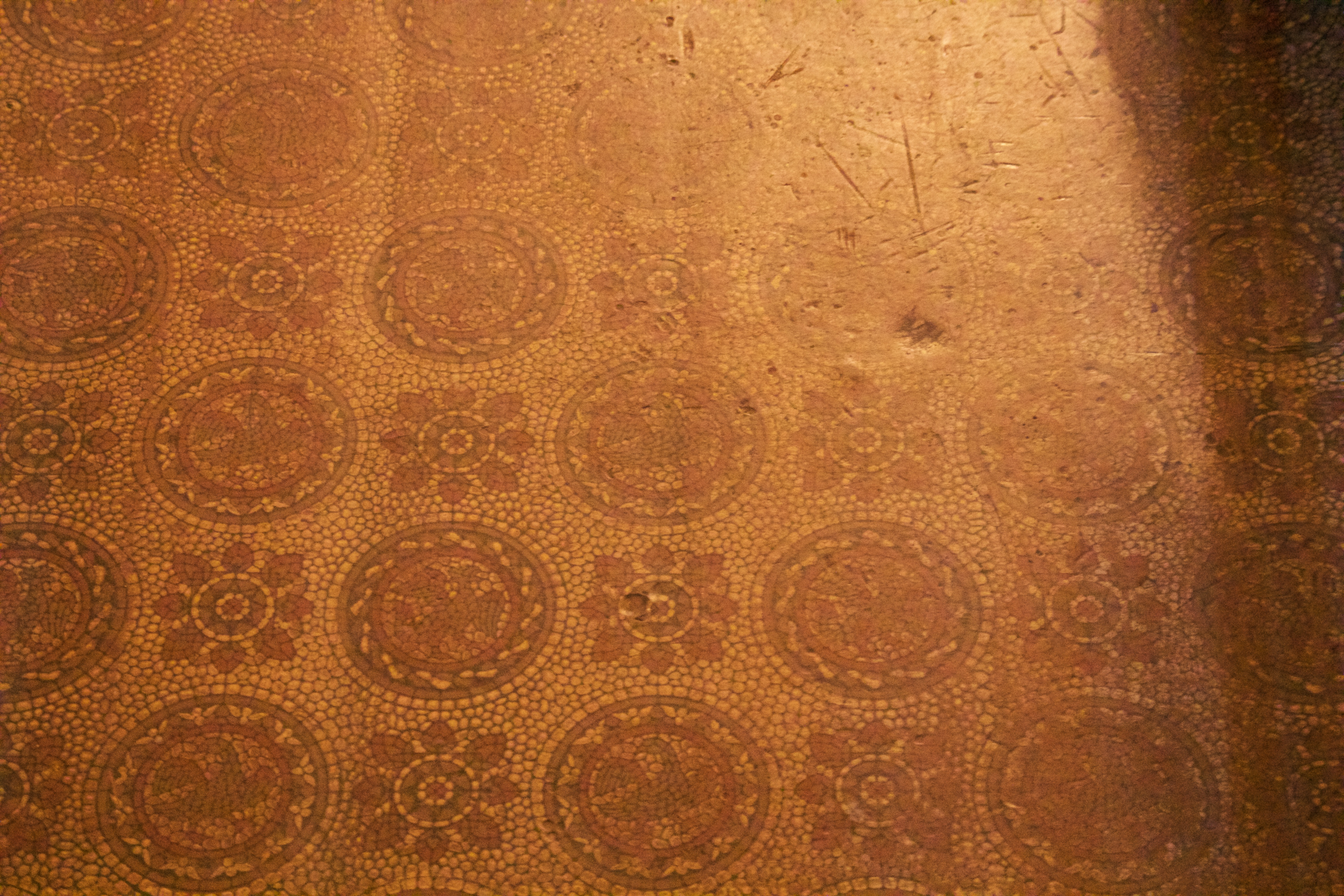 Tyntesfield, Somerset, United Kingdom